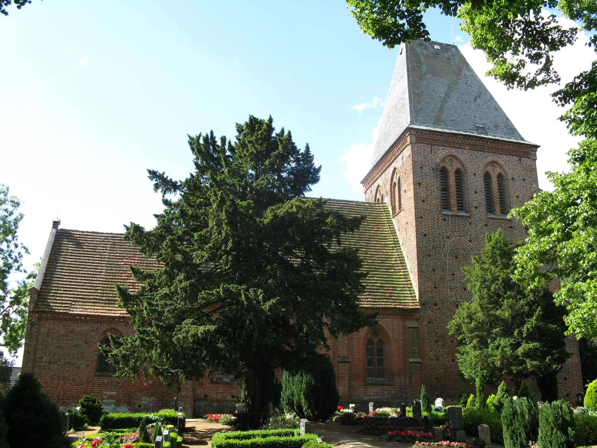 Church in Kirch Stück, district Nordwestmecklenburg, Mecklenburg-Vorpommern, Germany